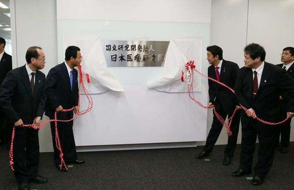 Makoto Suematsu, President of Japan Agency for Medical Research and Development, attended the ceremony to commemorate the establishment of Japan Agency for Medical Research and Development with Shinzō Abe, Prime Minister, Akira Amari, Minister of State for Economic and Fiscal Policy, and Hiroto Izumi, Special Advisor to the Prime Minister, at the Yomiuri Shimbun Building in Chiyoda Ward, Tōkyō Metropolis on April 3, 2015.